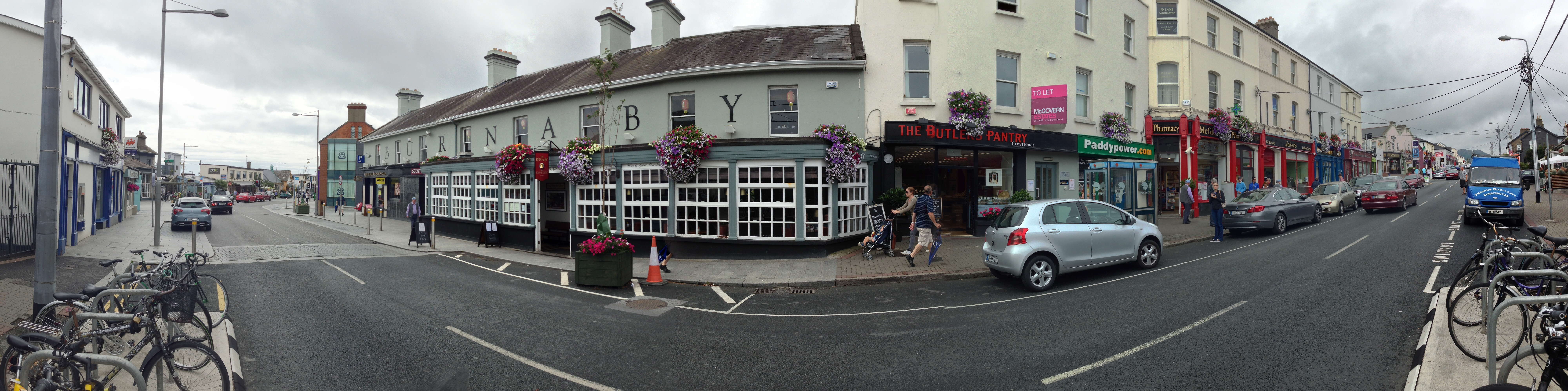 Greystones Panorama, County Wicklow, Ireland - August 2014